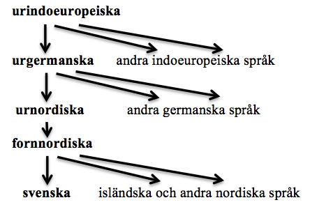 The caption says it all.